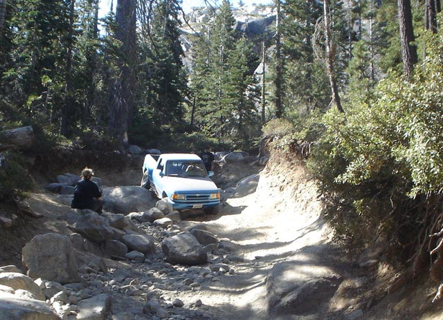 Picture by Ben Green This picture is of a stock Ford Ranger descending the Big Sluice on the Rubicon Trail.